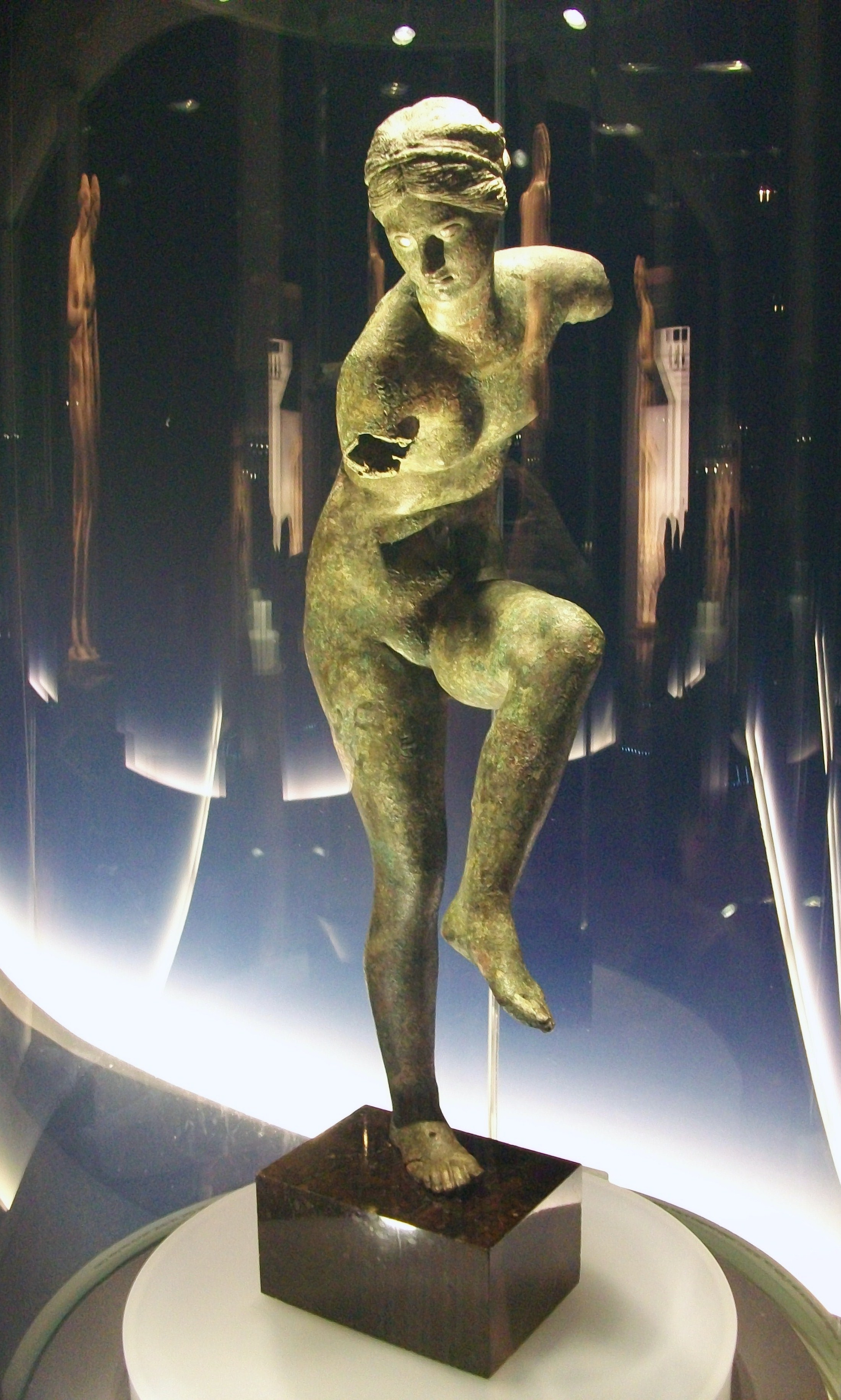 Bronze sculpture of Aphrodite removing her sandal. Hellenistic, c.200–100 BC. Photographed in the Archaeological Museum of Alicante, during the touring exhibition The Body Beautiful in Ancient Greek Art and Thought. Catalogue entry